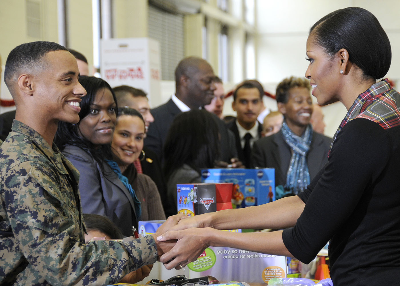 WASHINGTON (Dec. 16, 2011) First lady Michelle Obama shakes hands with Lance Cpl. Aaron Leeks and other Marines during a Toys-for Tots community service event. According to retired Marine Corps Lt. Gen. Pete Osman USMC, CEO of Toys for Tots, $27 million was raised through monetary and toy donations this year. (U.S. Air Force photo by Staff Sgt. Brittany E. Jones/Released)